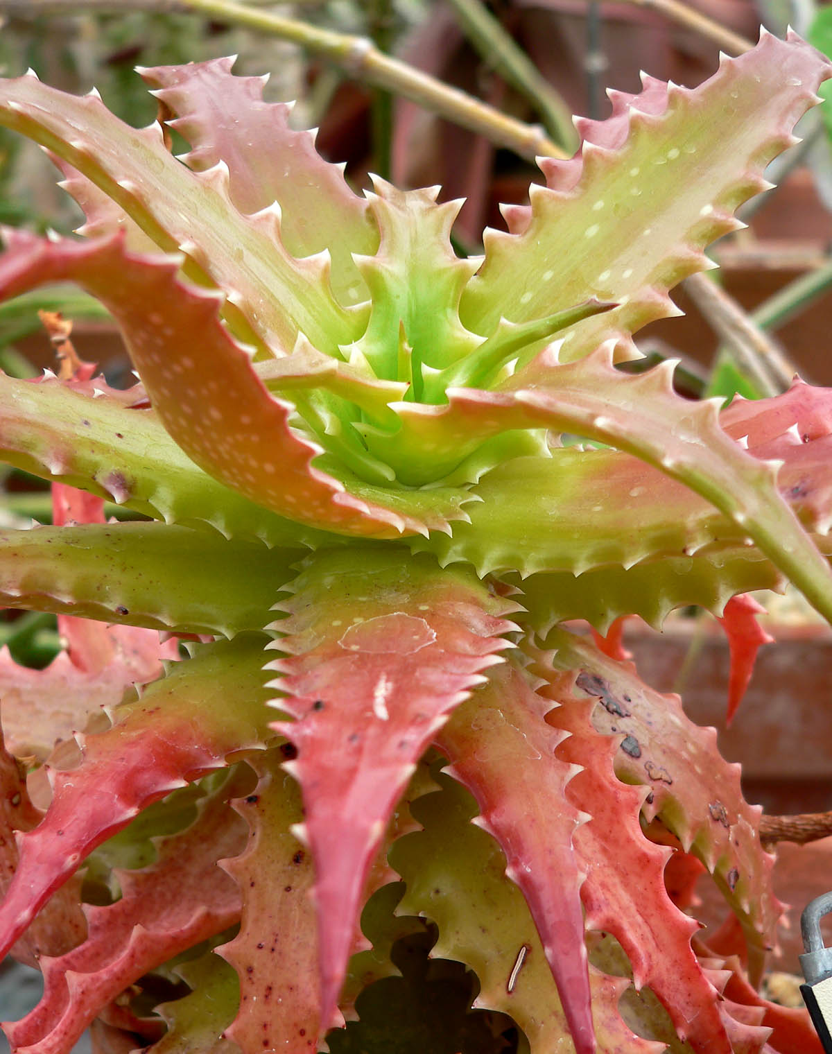 Photo of Aloe_dorotheae at the University of California Botanical Garden